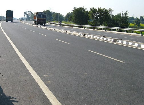 Bihar Highway NH 57 India, has been renumbered as NH 27.